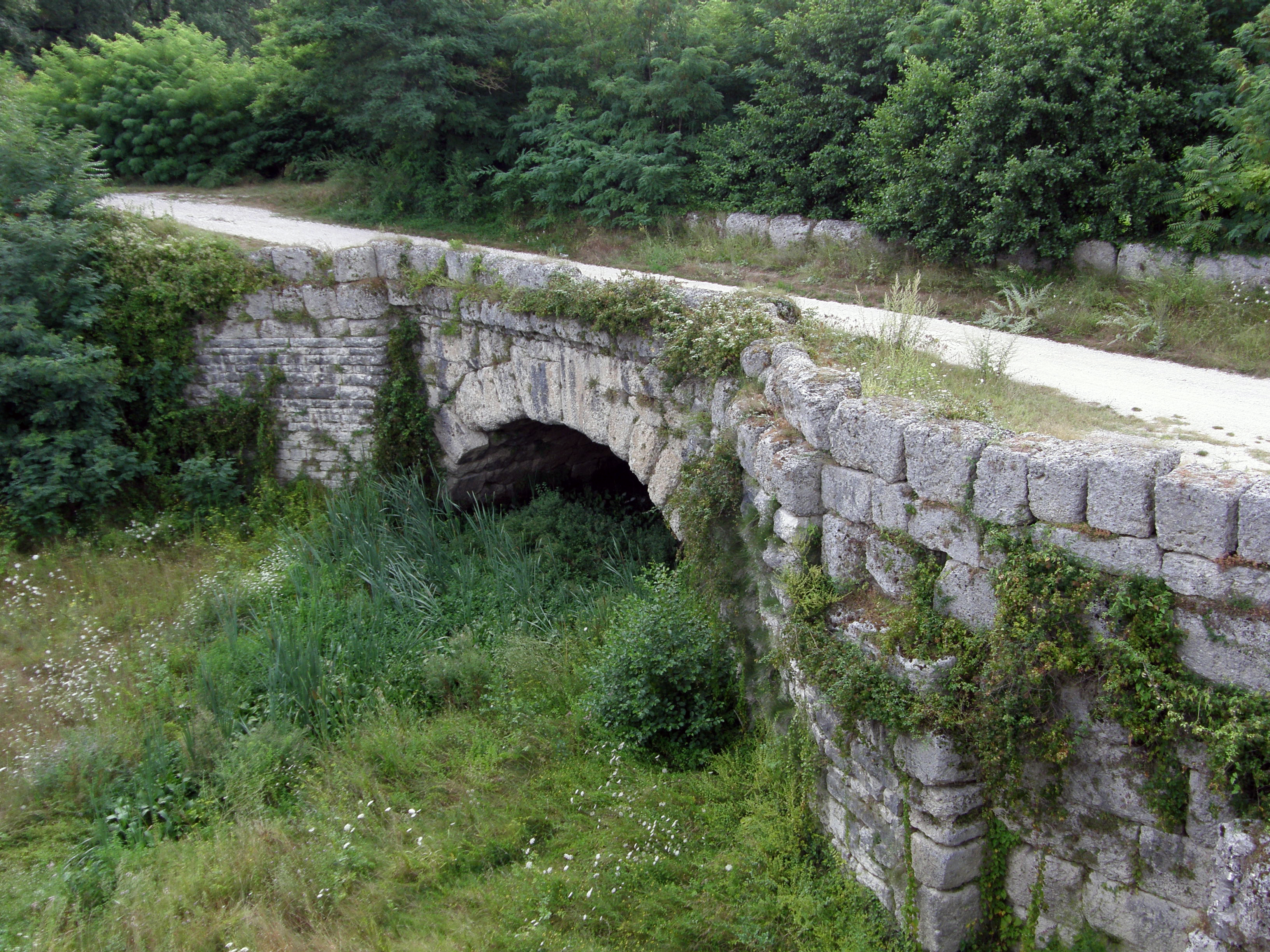 Mallio bridge Cagli, Marche, Italy; It's a roman bridge of the ancient Via Flaminia